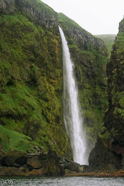 Tanaga Island waterfall by Steve Ebbert/ USFWS.